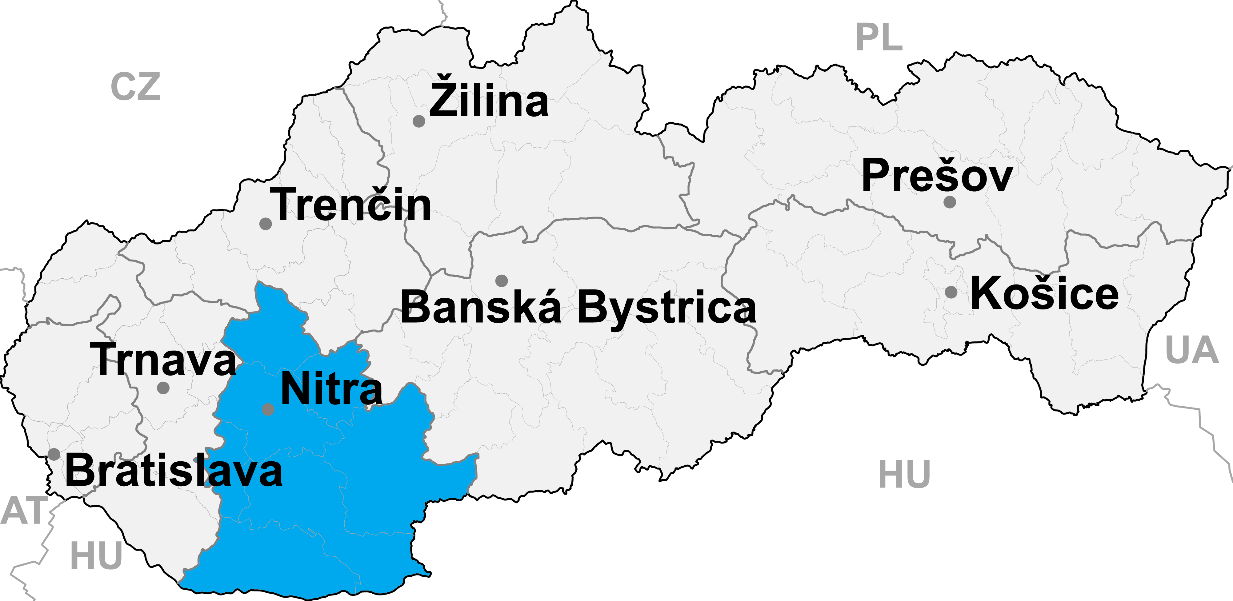 map of Slovakia, district (kraj) of Nitra highlighted